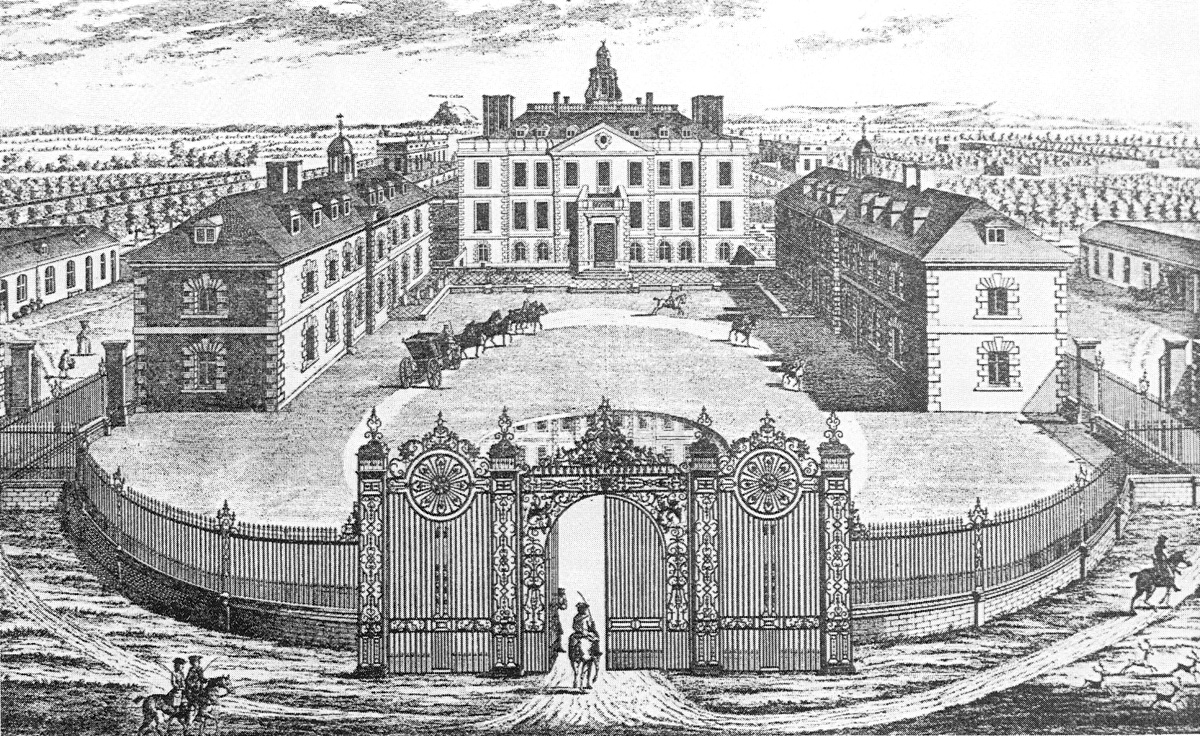 Engraving showing the William Samwell Eaton Hall, by Thomas Badeslade (c. 1740)